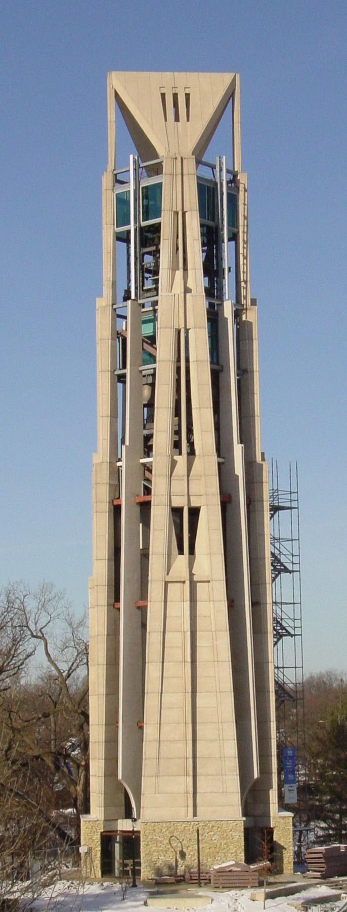 Moser Tower along the Riverwalk park complex in Naperville, Illinois, USA. Moser Tower contains the city's Millennium Carillon.